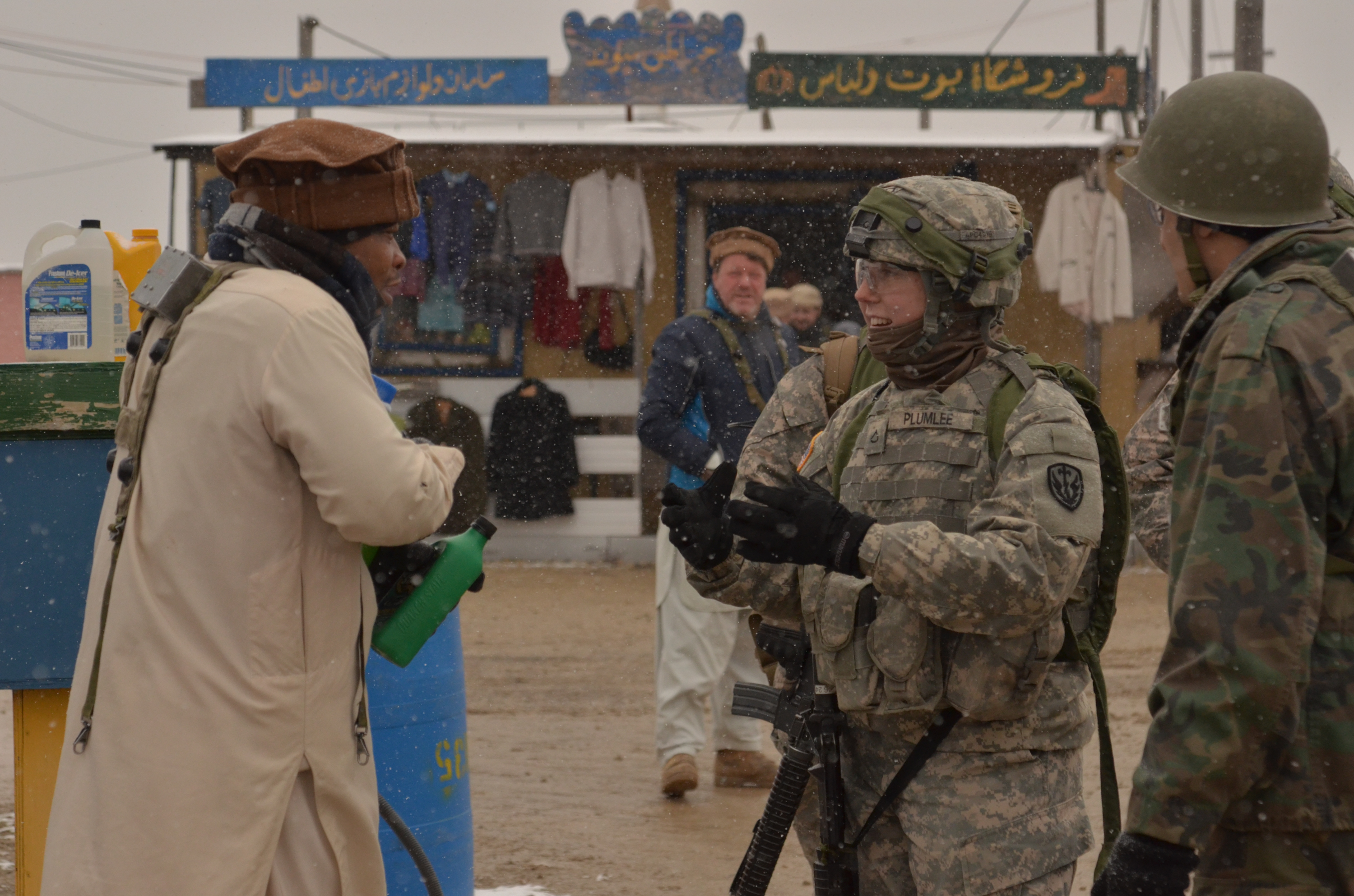 A U.S. Soldier, second from right, with the 3rd Squadron, 2nd Cavalry Regiment interacts with a civilian role player during a mission rehearsal exercise at the Joint Multinational Readiness Center in Hohenfels, Germany, March 13, 2013. Mission rehearsal exercises develop combat skills, counterinsurgency tactics and interoperability between military forces of the U.S. and its partner nations before a scheduled deployment.